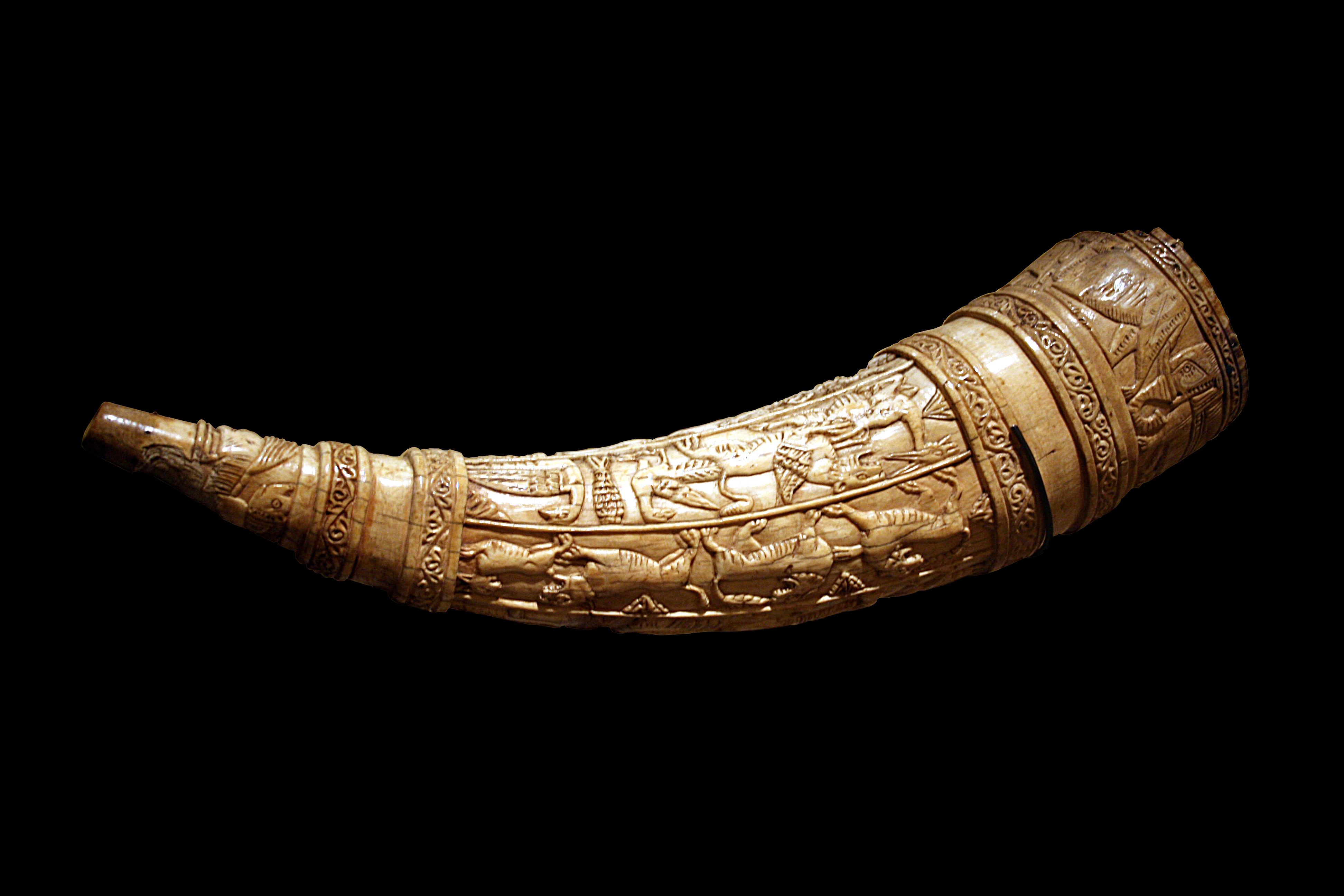 Olifant carved in an elephant tusk (Height: 0.48 cm - Width: 0.16 cm - Weight: 1.3 Kg), decorated all over its surface with hunting scenes, dogs, pheasants, elephants and of griffins carved in bas-relief, made around 1200 in Italy, kept in the Army Museum in Paris.